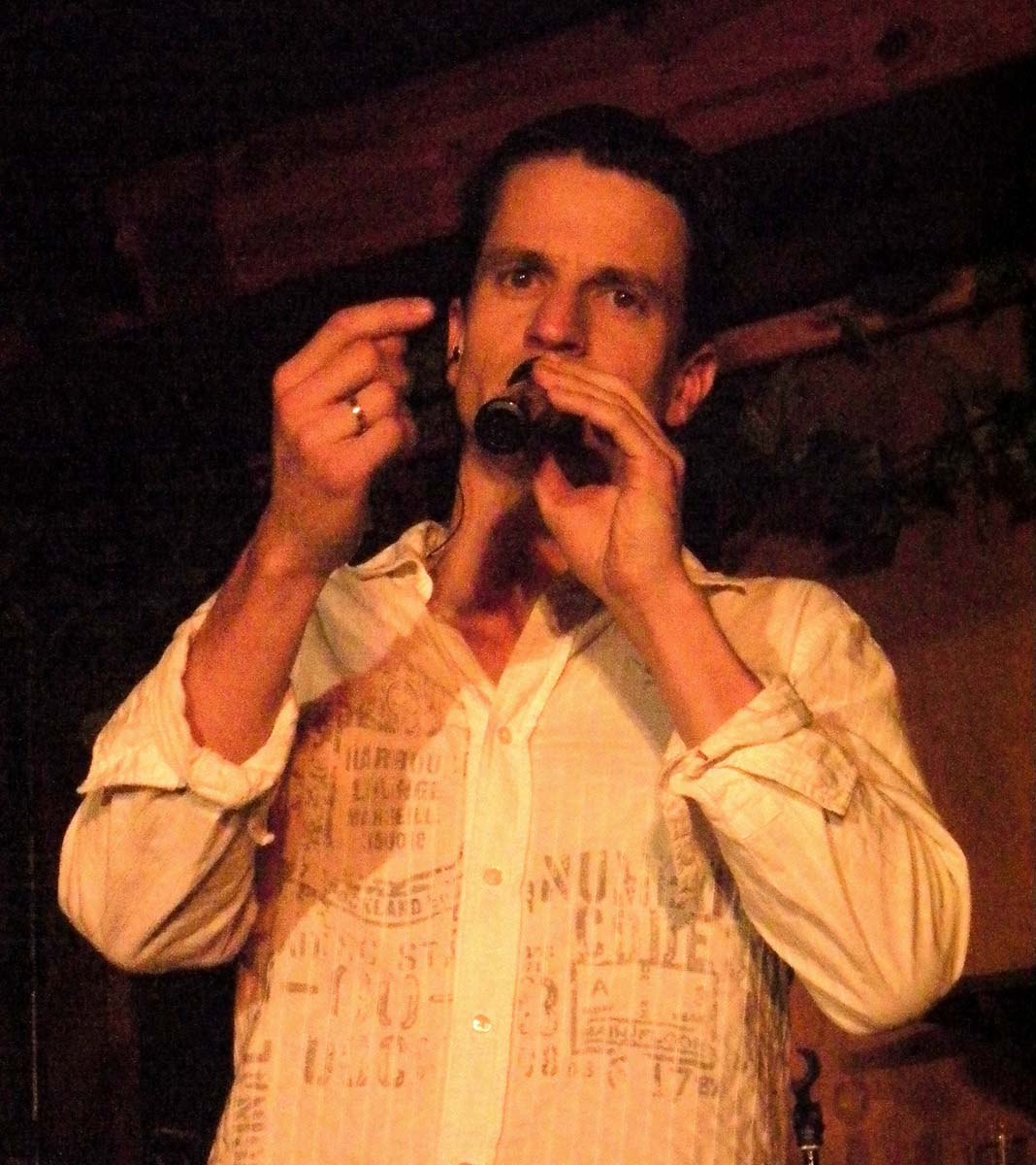 Austrian a cappella quintet's Mainstreet last "mittendrin." concert. It was an almost private performance for just ~250 friends, in Selitsch's quite popular restaurant at Vienna, showing their 2008 and last album "mittendrin." The group as-is will split up in order to do everyone's own projects, whilst staying friends, after their Christmas show "Weihnachten g'spian" on December 21, 2008.